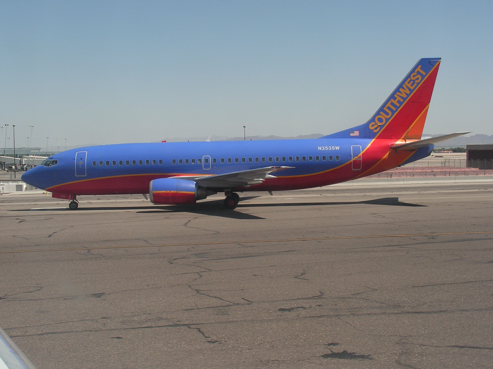 A Southwest Airlines Boeing 737-300 pictured in the airline's canyon blue primary livery.